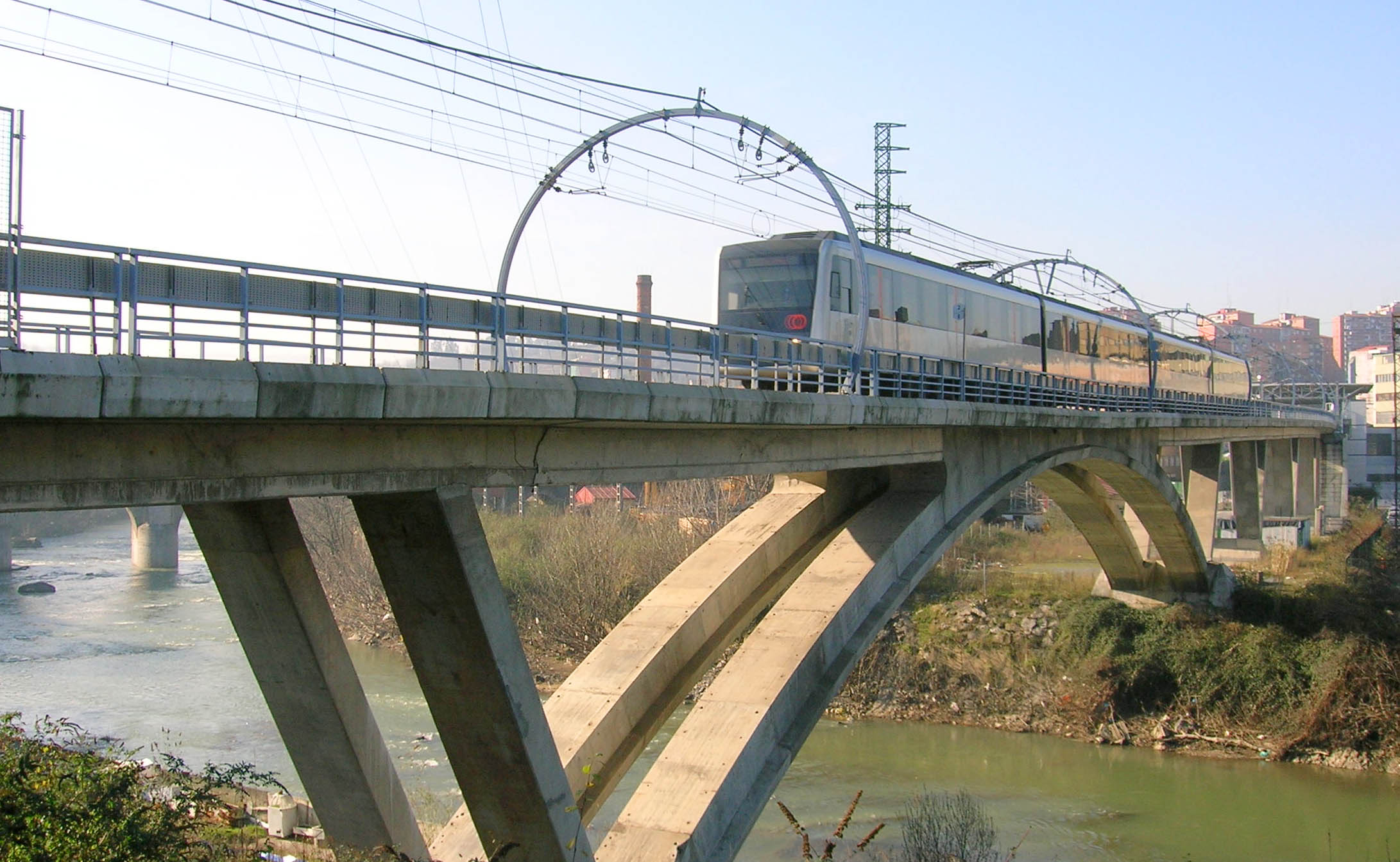 Train arriving Bolueta station, Bilbao, out of the tunnel of Etxebarri.